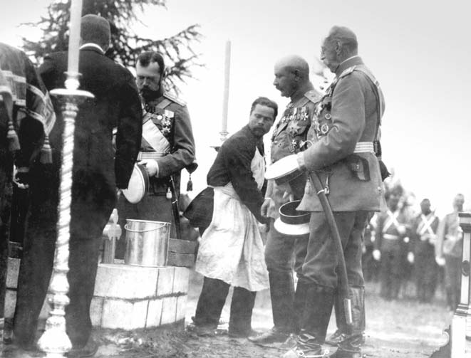 Ceremony of laying the foundation stone of the church of the Holy Princess Olga on 6 August 1907. Nicholas II (second from left), Huseyn Khan Nakhichevanski (fourth from left) and Baron Frederiks.